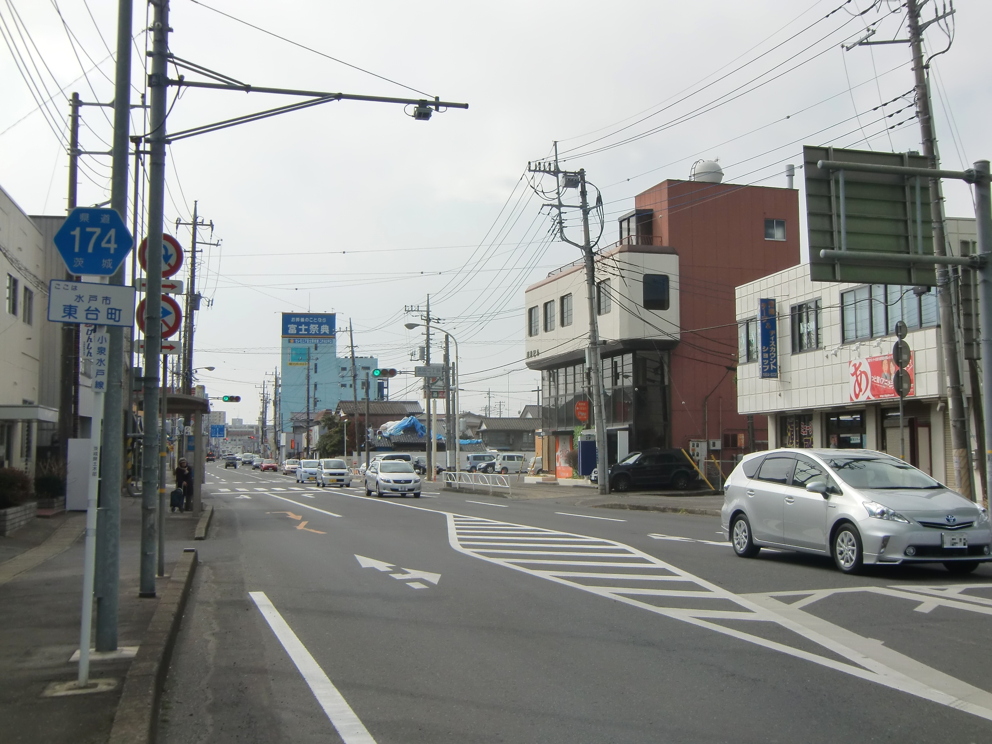 Ibaraki prefectural road 174, Koizumi-Mito line, in Higashidai-chō, Mito city, Ibaraki prefecture, Japan.